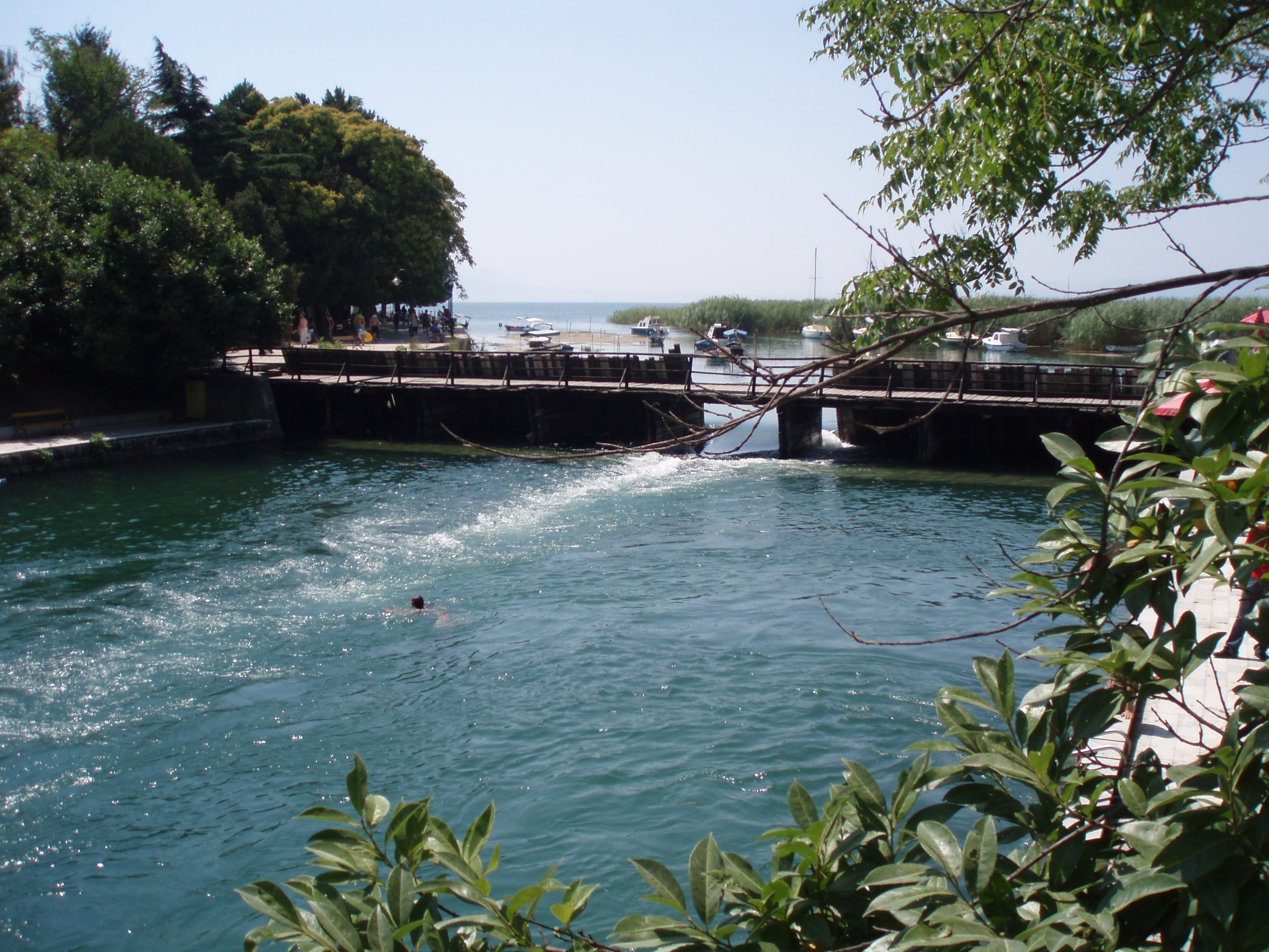 The wather leaves Lake Ohrid in Struga, River Black Drin, Republic of Macedonia. Bridge of the Poets.